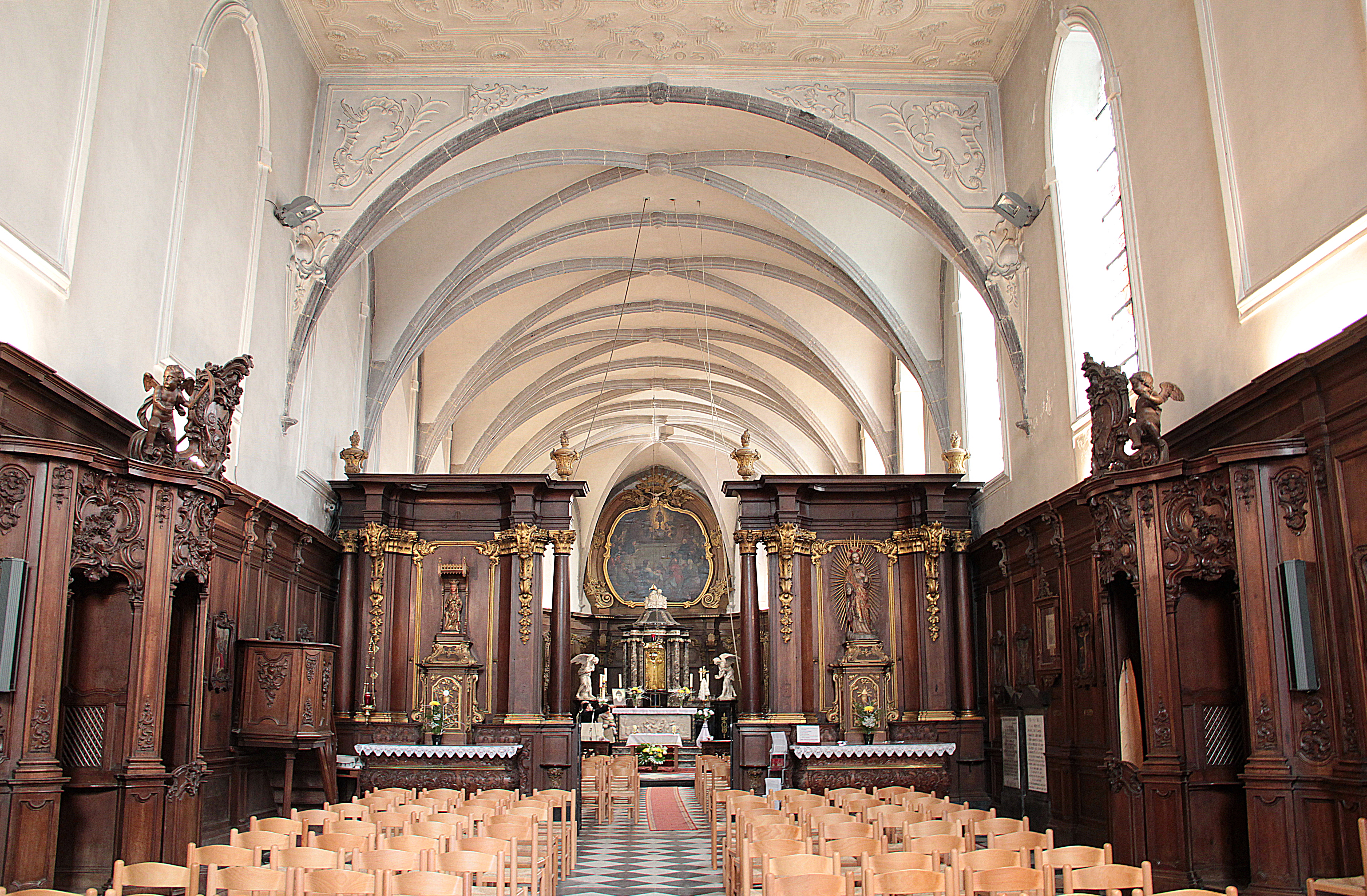 Bois-Seigneur-Isaac (Belgium), nave and choir of the Chapel of the "Saint-Sang" (Holy Blood) (XVIth century).